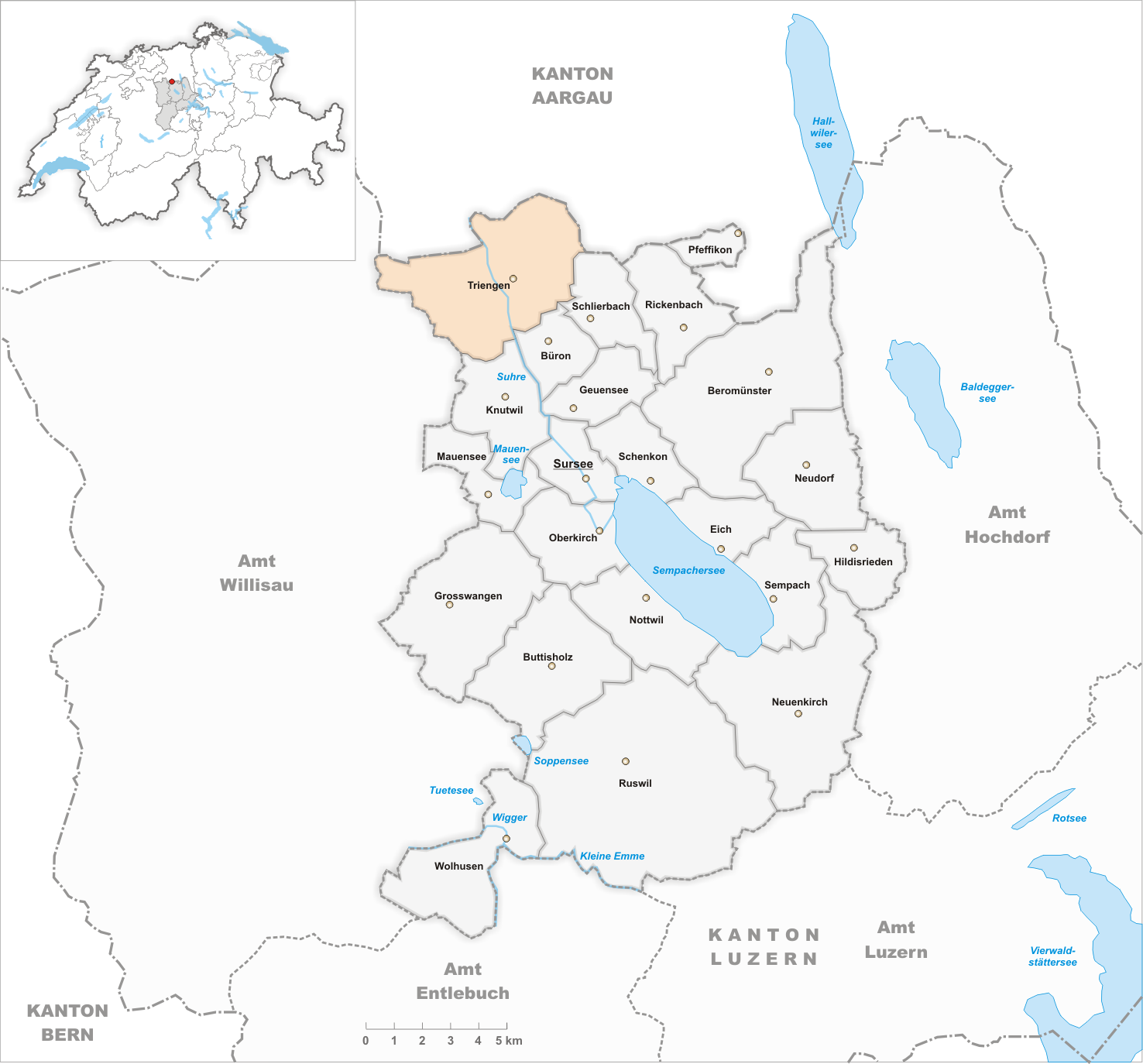 Municipality Triengen